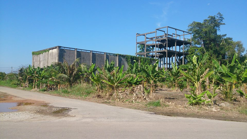 PreWWII Historic building